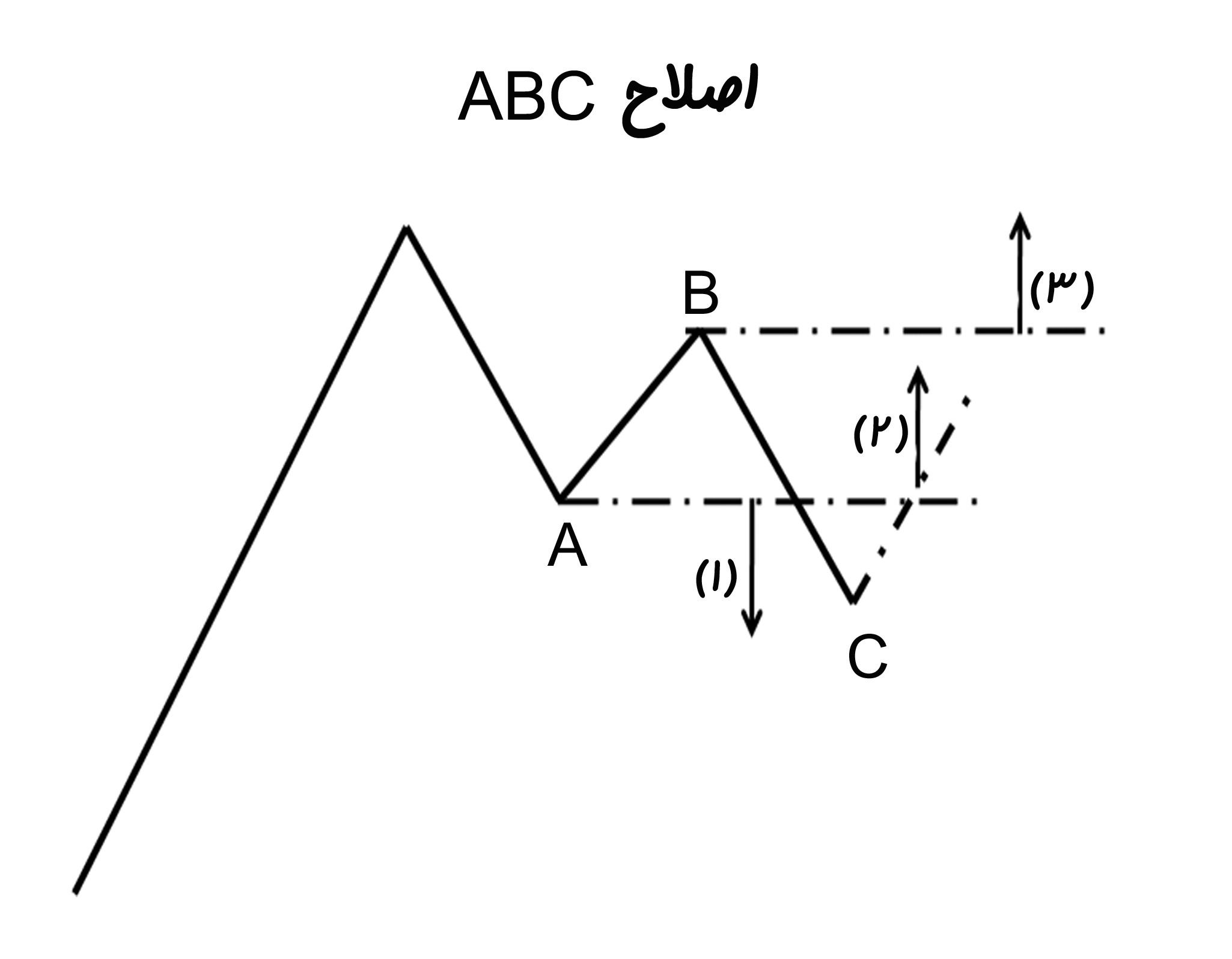 ABC Correction